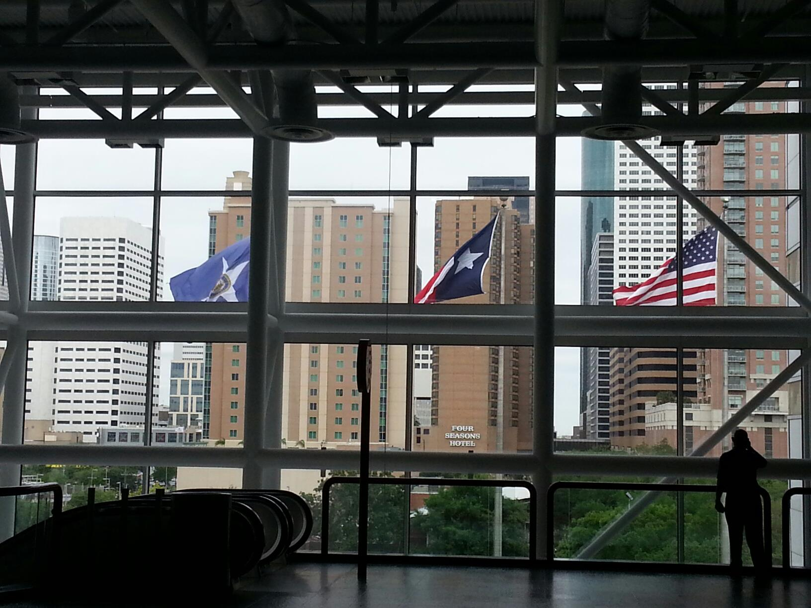 This a view of downtown Houston from inside the George R. Brown Convention Center on April 25, 2013.